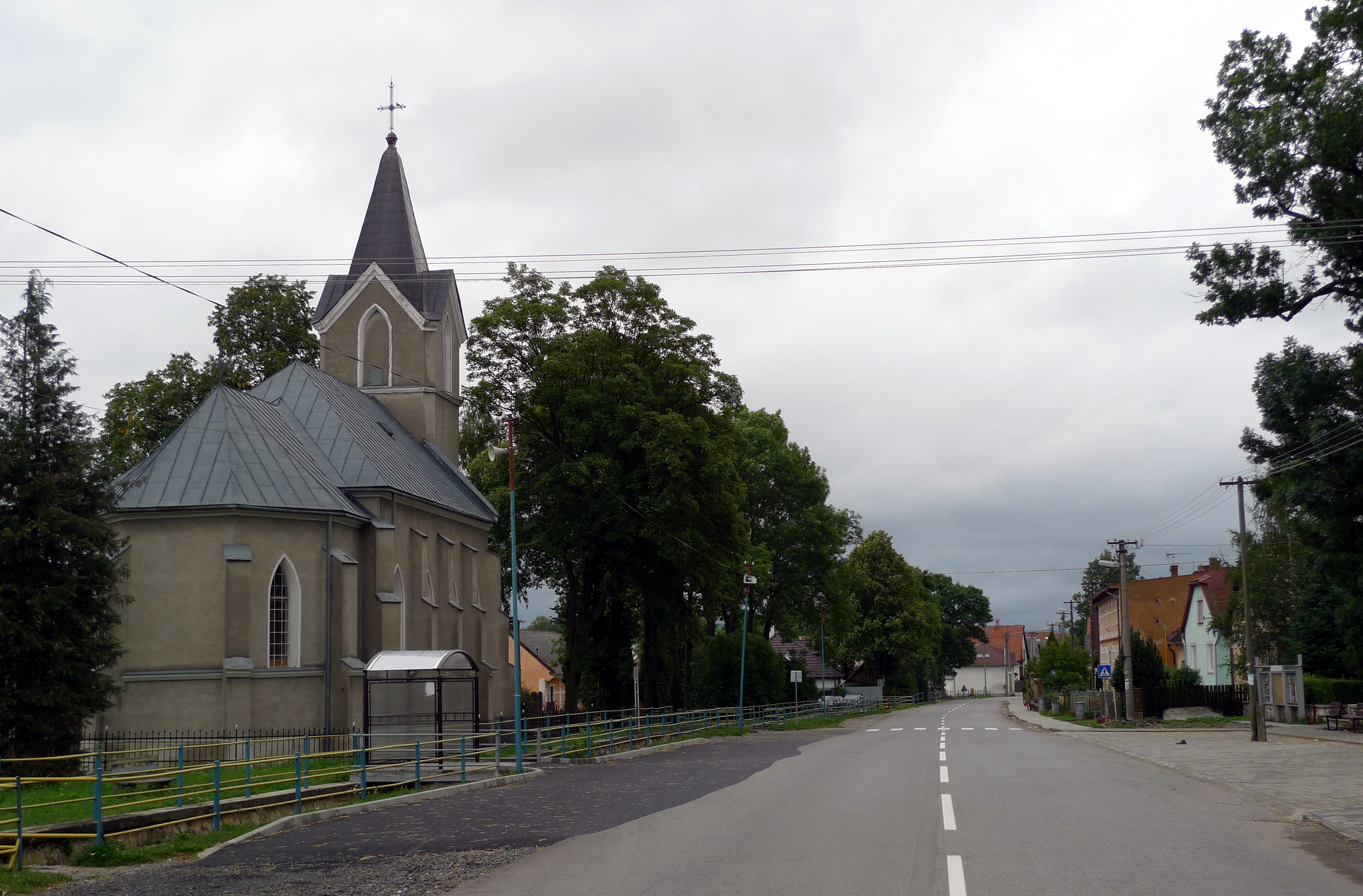 Slovenská Ves - lutheran church in Slovak village